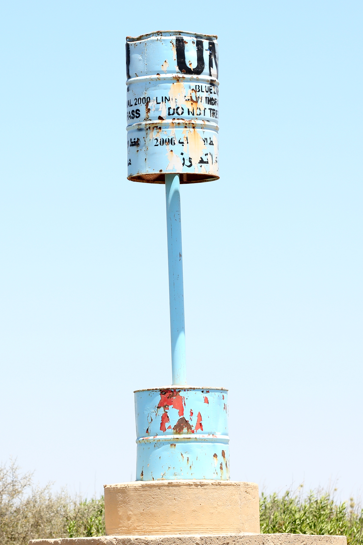 Damien Duff out on the Blue line in Tibnine Lebanon